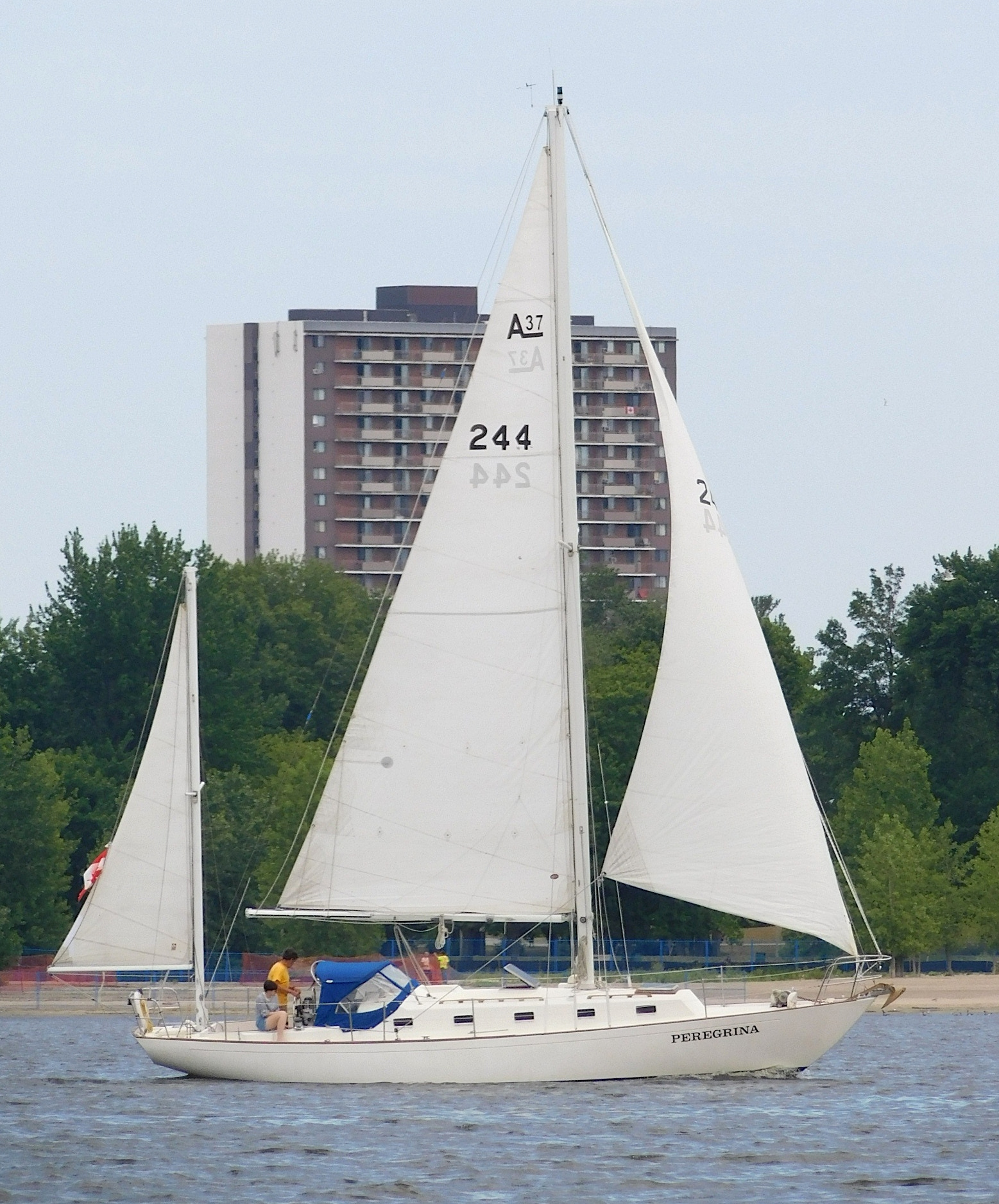 An Alberg 37 Yawl sailboat named Peregrina.